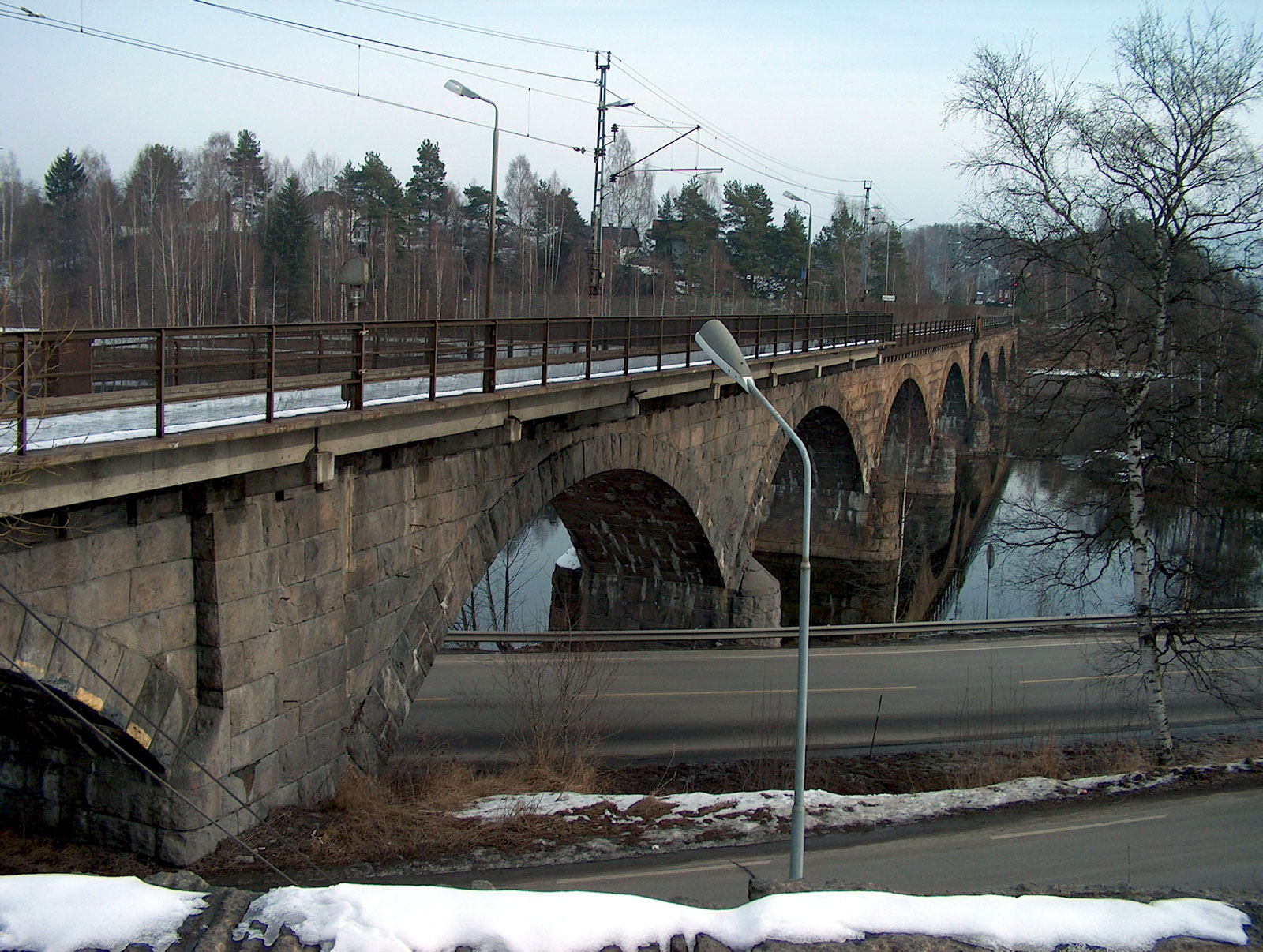 Begna bru (Bridge of Begna), jernbanebrua over Ådalselva (a railway bridge past River Begna)